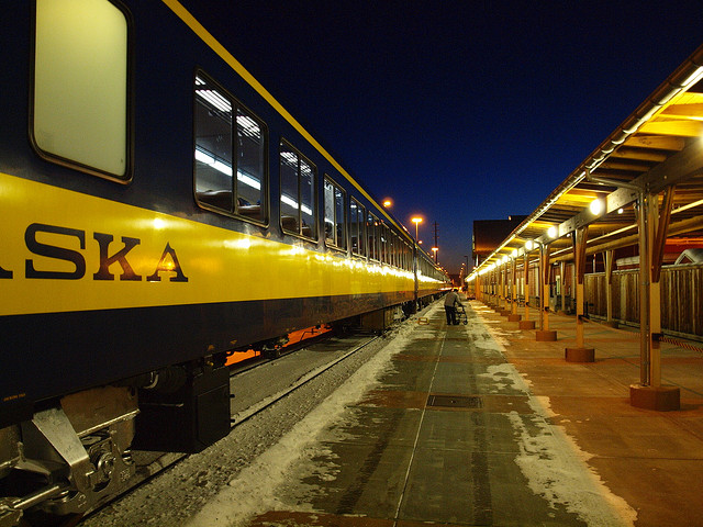 Alaska Railroad train arrives at Fairbanks station